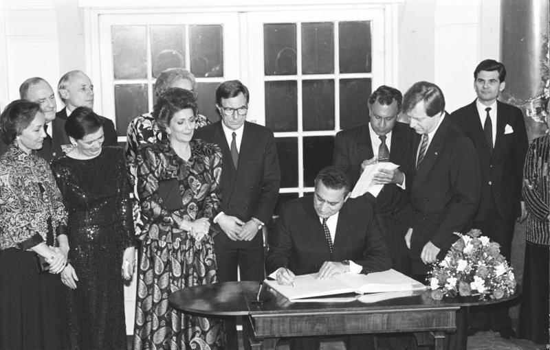 The signing of the guestbook of the city of Berlin by Egyptian president Mubarak. The governing mayor Eberhard Diepgen is standing in the foreground on the right-hand side.